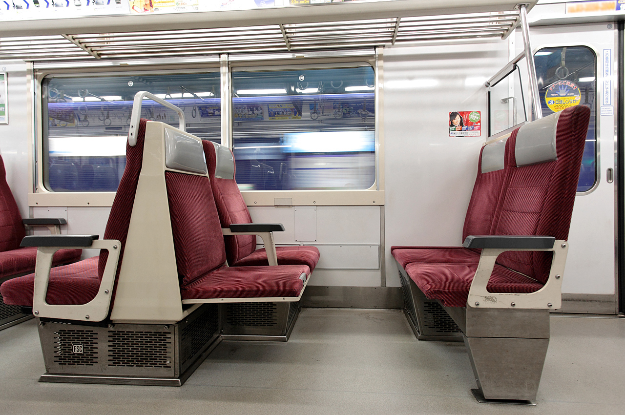 The Twin-gle seat ( that is retractable ) of Keikyu 600 series EMU ( III )